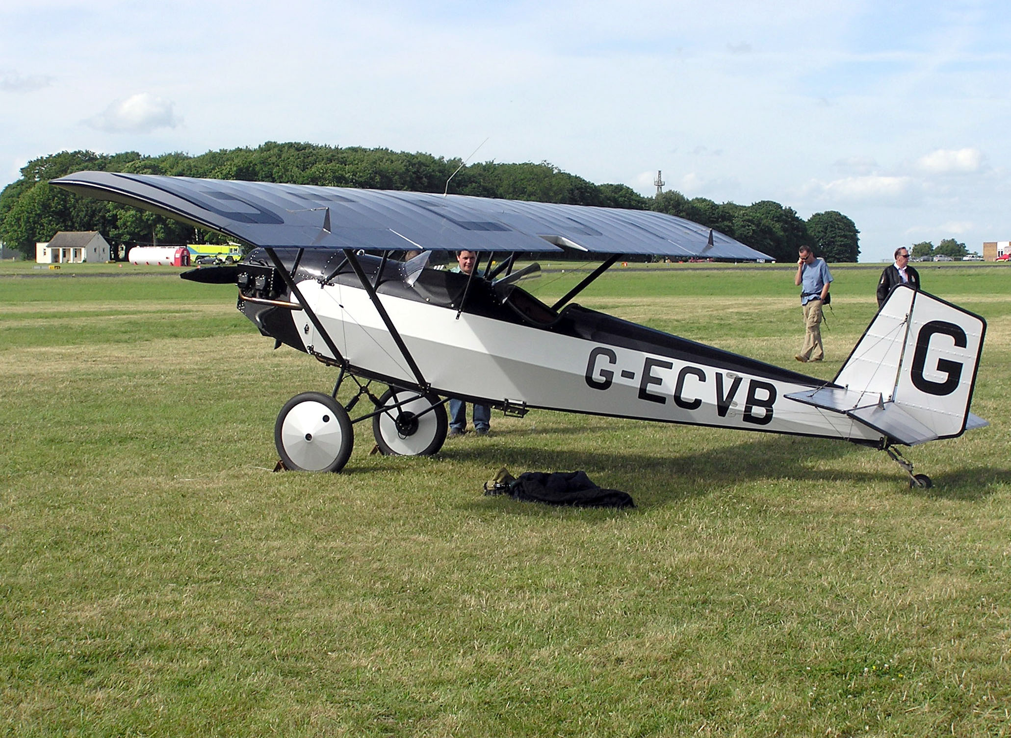 Home-built Pietenpol Air Camper (UK registration G-ECVB), at Kemble Airfield, Gloucestershire, England. Built in year 2000 approx. Photographed by Adrian Pingstone in July 2005 and placed in the public domain.